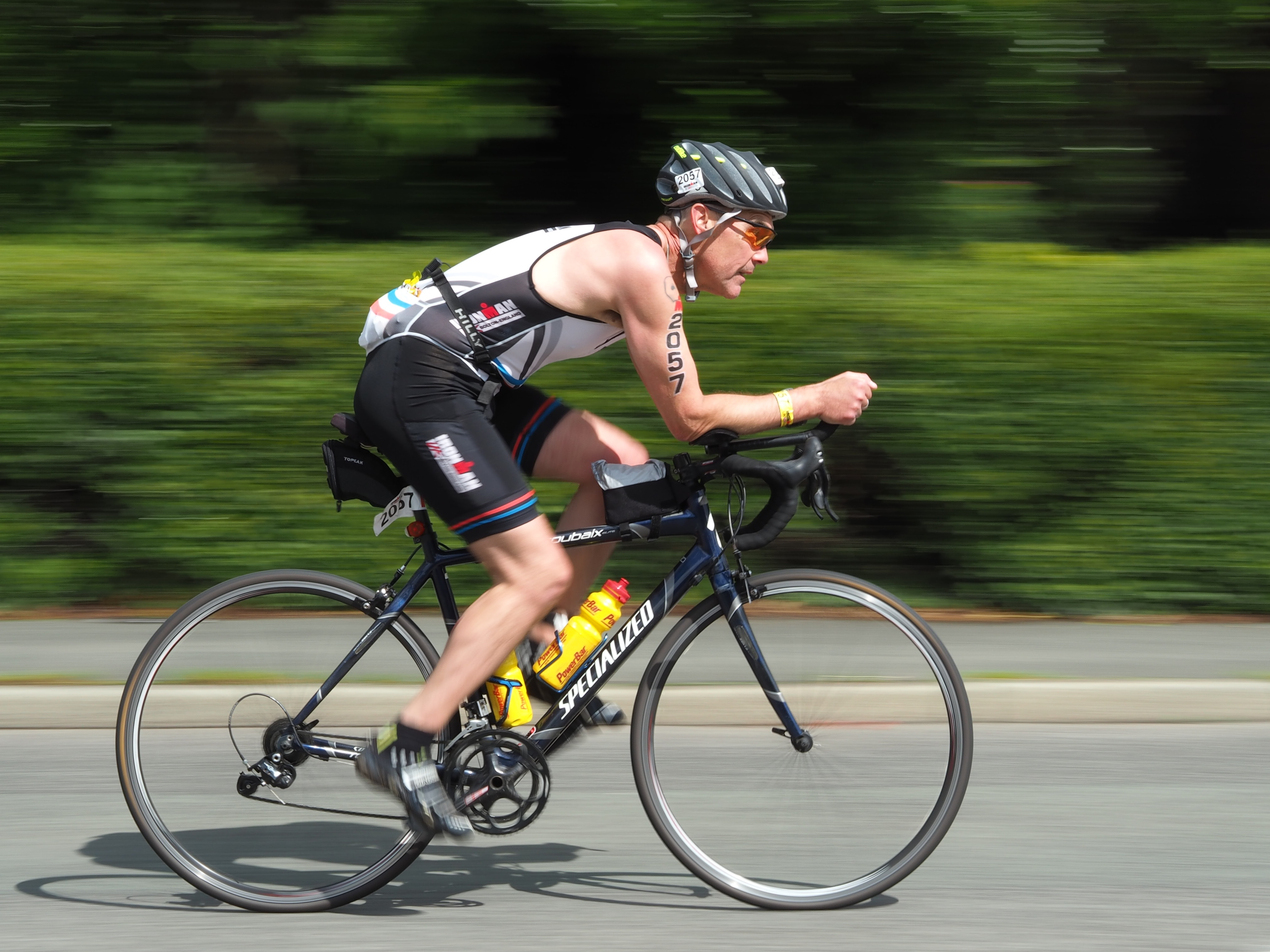 Panning shot of a competitor in the UK Ironman 2015